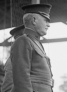 Citizen's Military Training Camp, Camp Meade, Brig. Genl. C.H. Martin, 8/21/22 National Photo Company Collection, Library of Congress